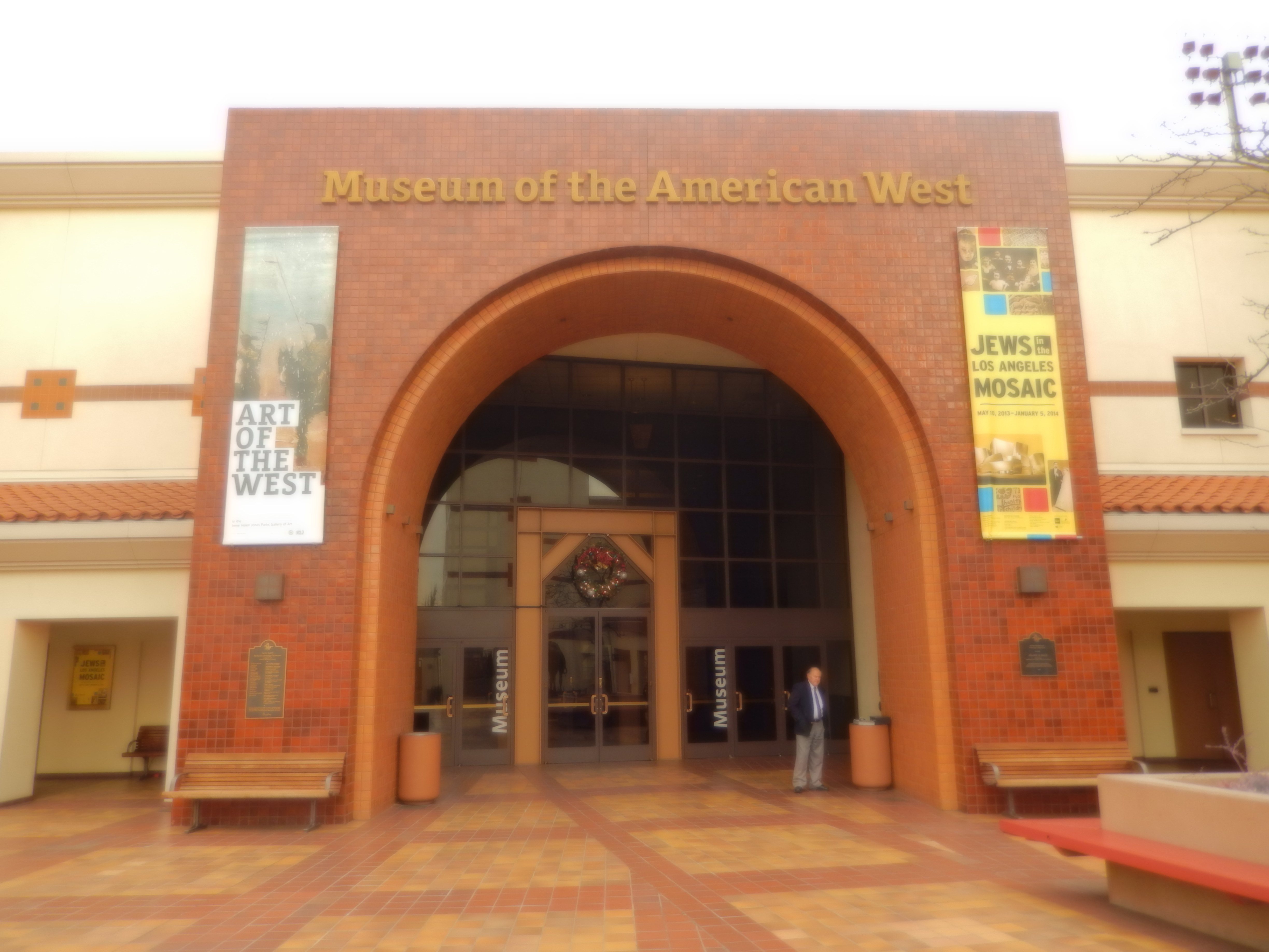 I took photo of entrance to the museum at the Autry Center with Nikon camera.